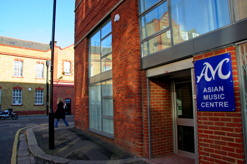 The Asian Music Circuit's Museum in Acton, West London